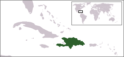 Location of Hispaniola in the Caribbean Sea